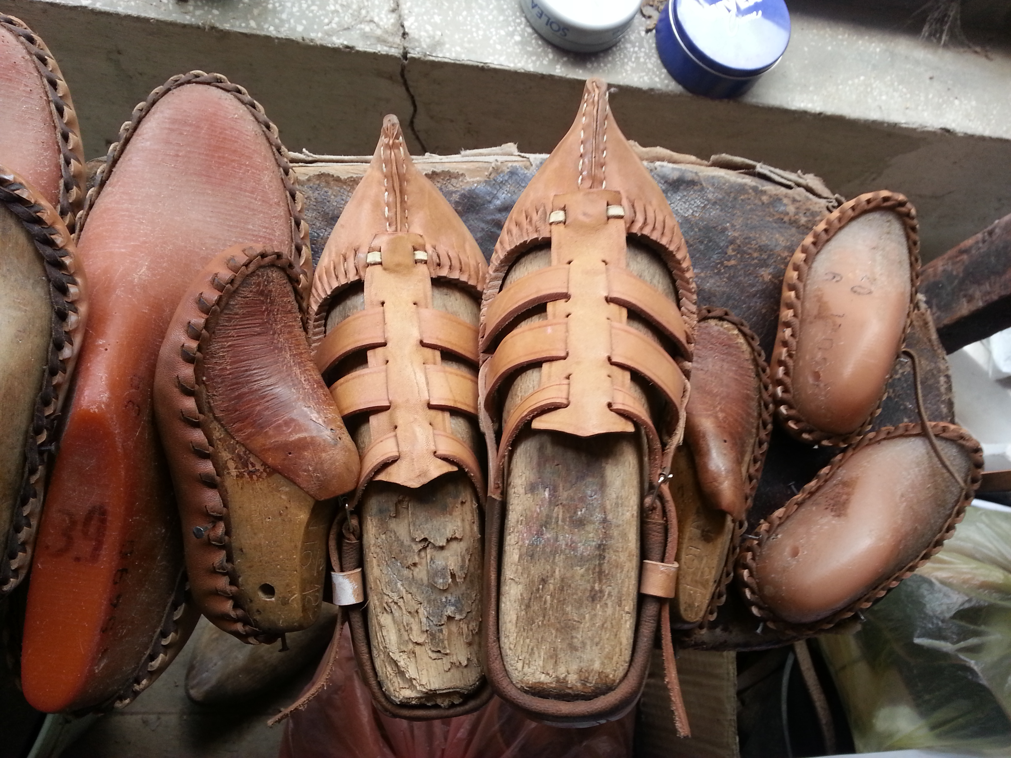 Opanak - Traditional crafts